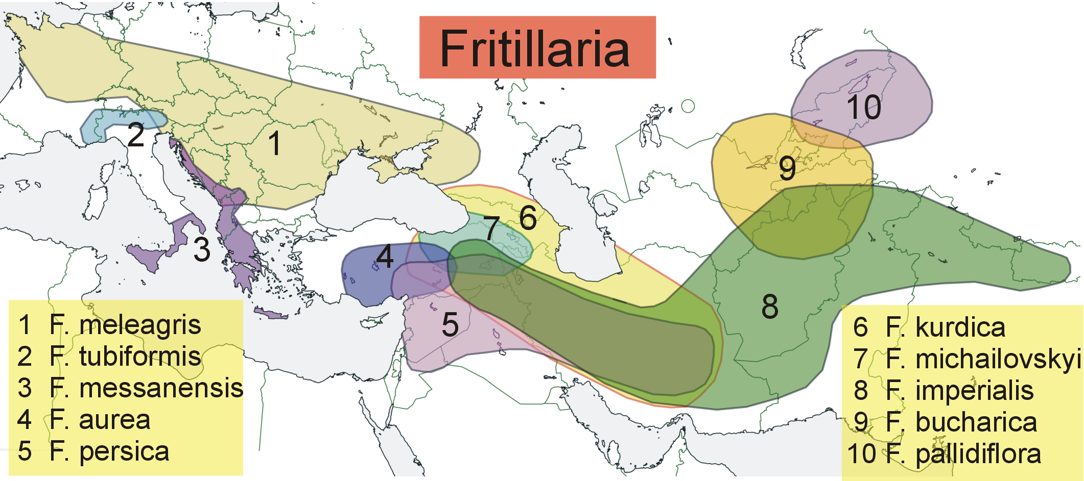 Distribution map of ten fritillaria species. (Presumed natural spread according to wikipedia sources)